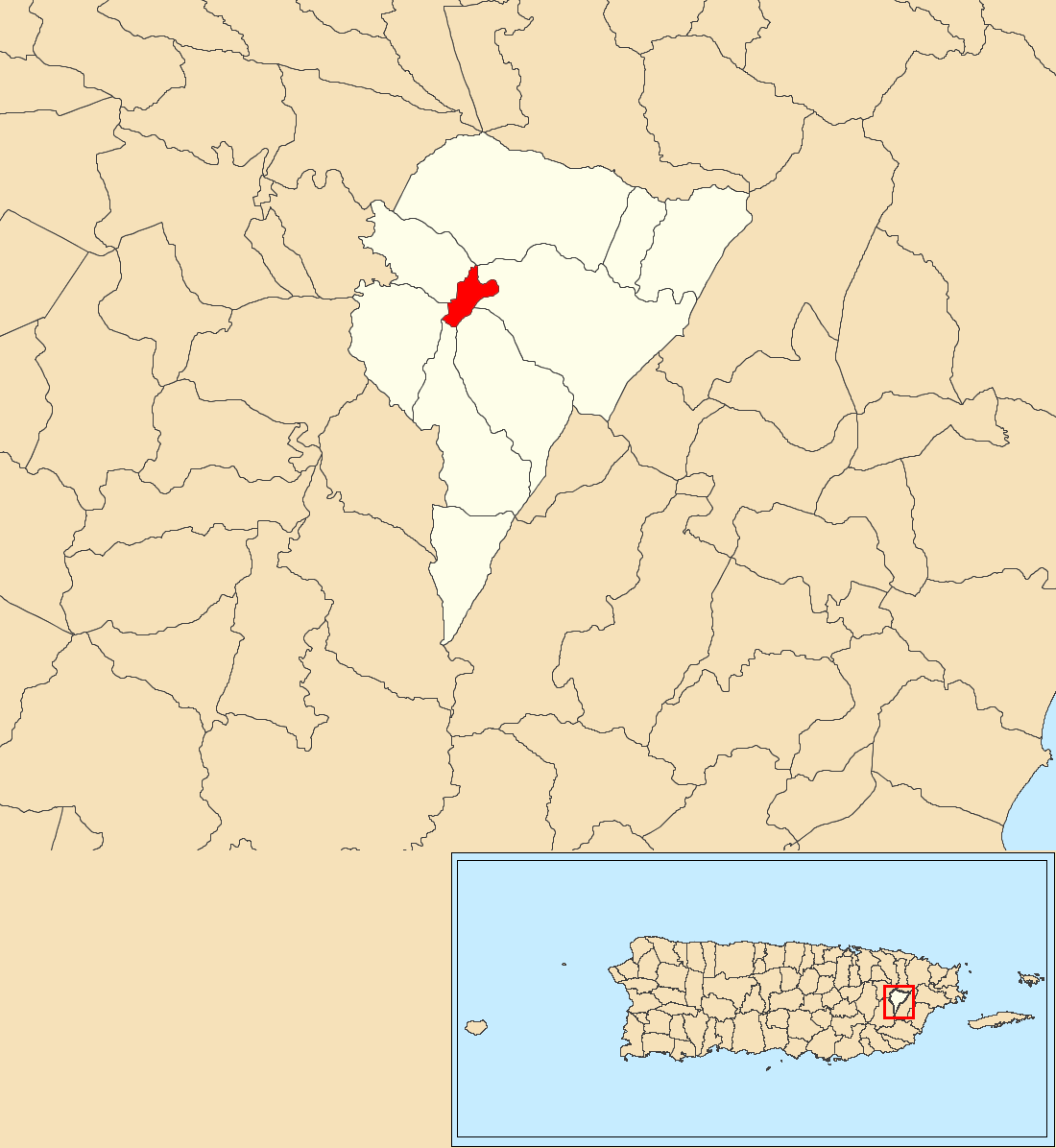 Juncos barrio-pueblo, Juncos, Puerto Rico locator map